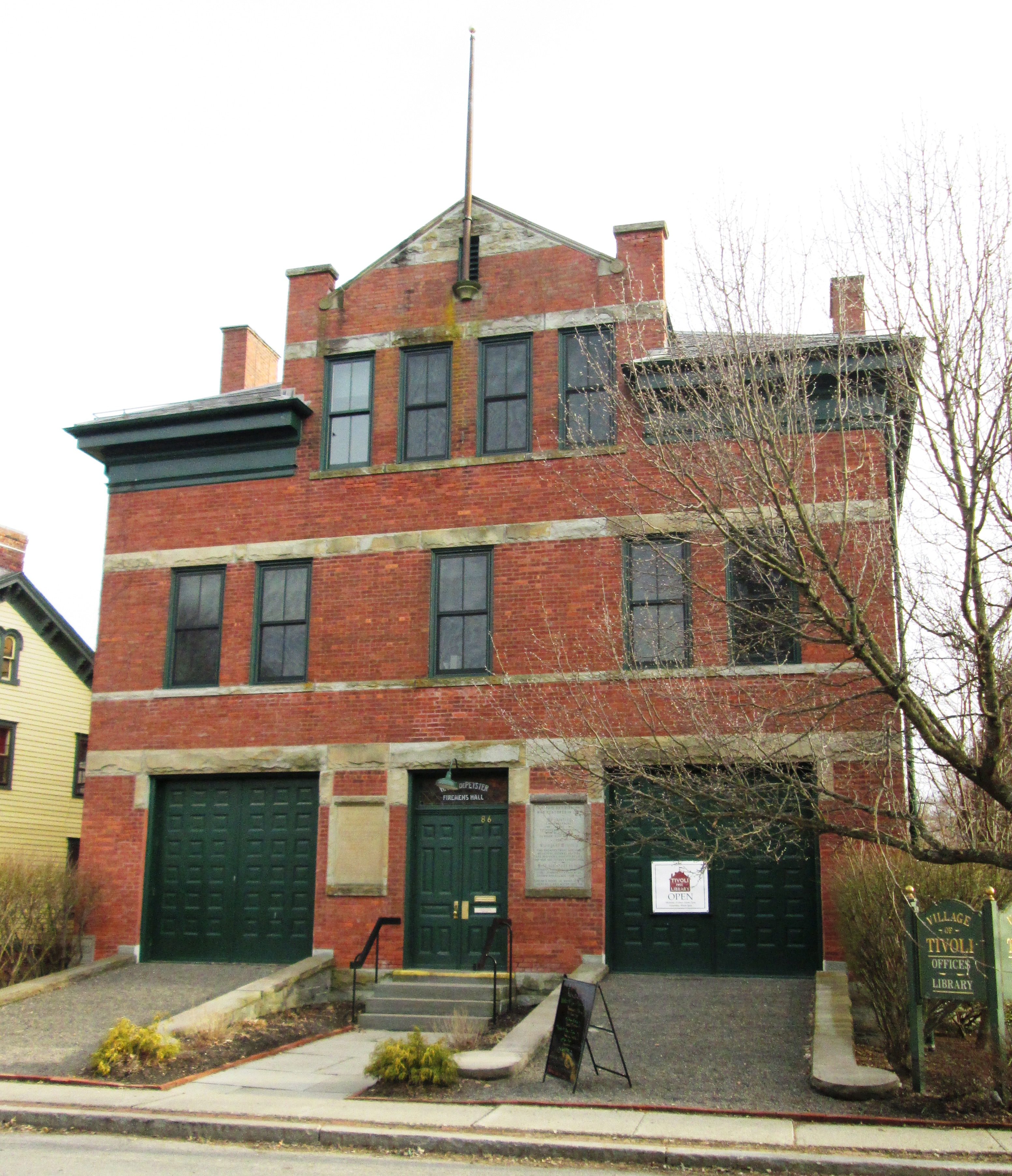 The Watts De Peyster Fireman's Hall:Watts De Peyster Fireman's Hall located at 86 Broadway in Tivoli, New York, was a gift to the village of Tivoli by John Watts de Peyster for use as a firehouse. Built in 1898 in the Richardson Romanesque style and designed by Michael O'Connor, since the building of a new firehouse in 1986 it has housed the village offices; the Tivoli Bays Visitor Center of the Hudson River National Estuarine Research Reserve is also located there. The building was listed on the National Register of Historic Places in 1989, and since 1992 is also a contributing property to the Hudson River Historic District, which is a National Historic Landmark.